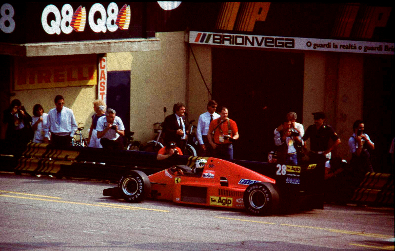 Johanson at 1986 Italian Grand Prix